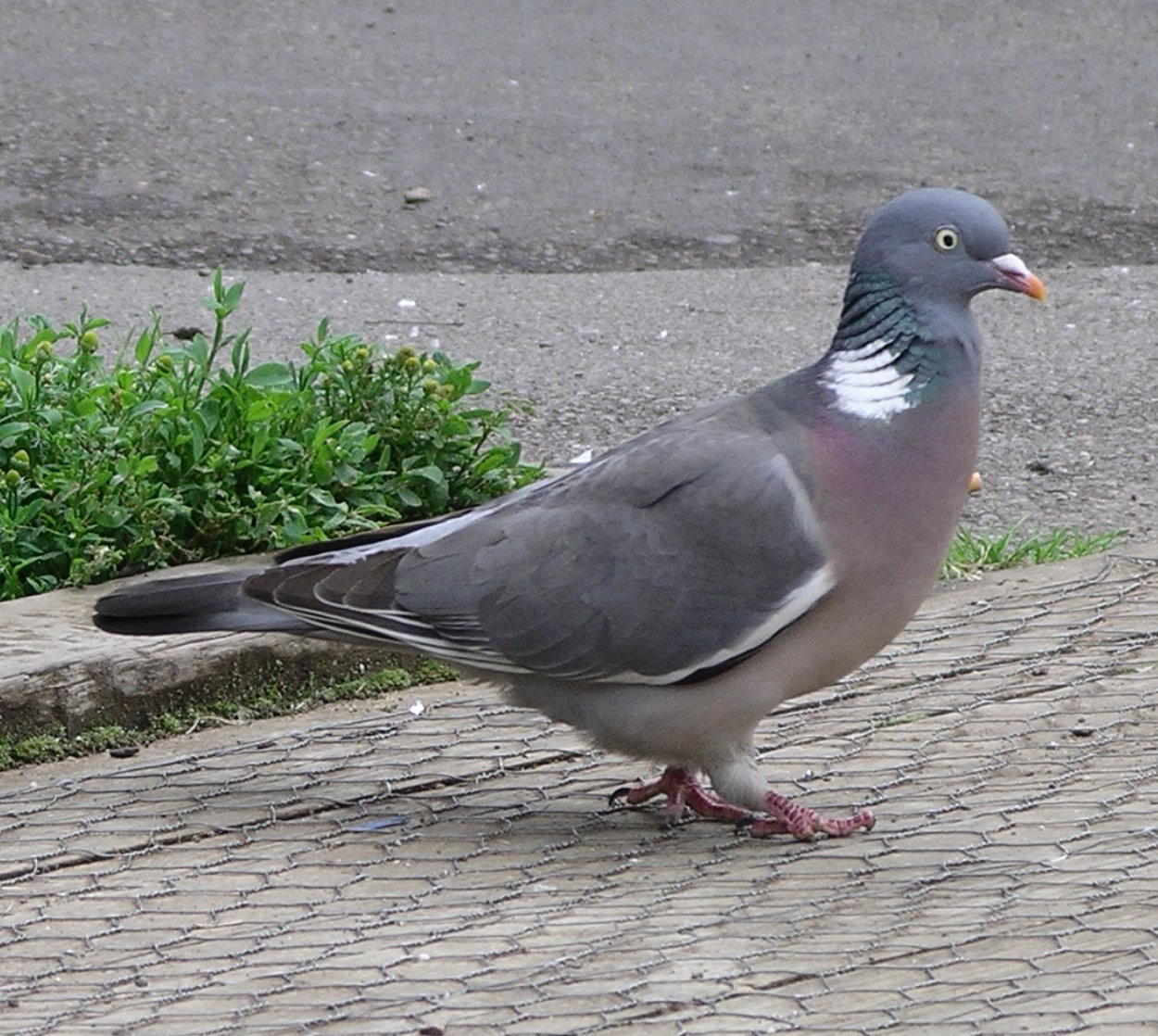 Photo of a Wood Pigeon in Kenilworth, England